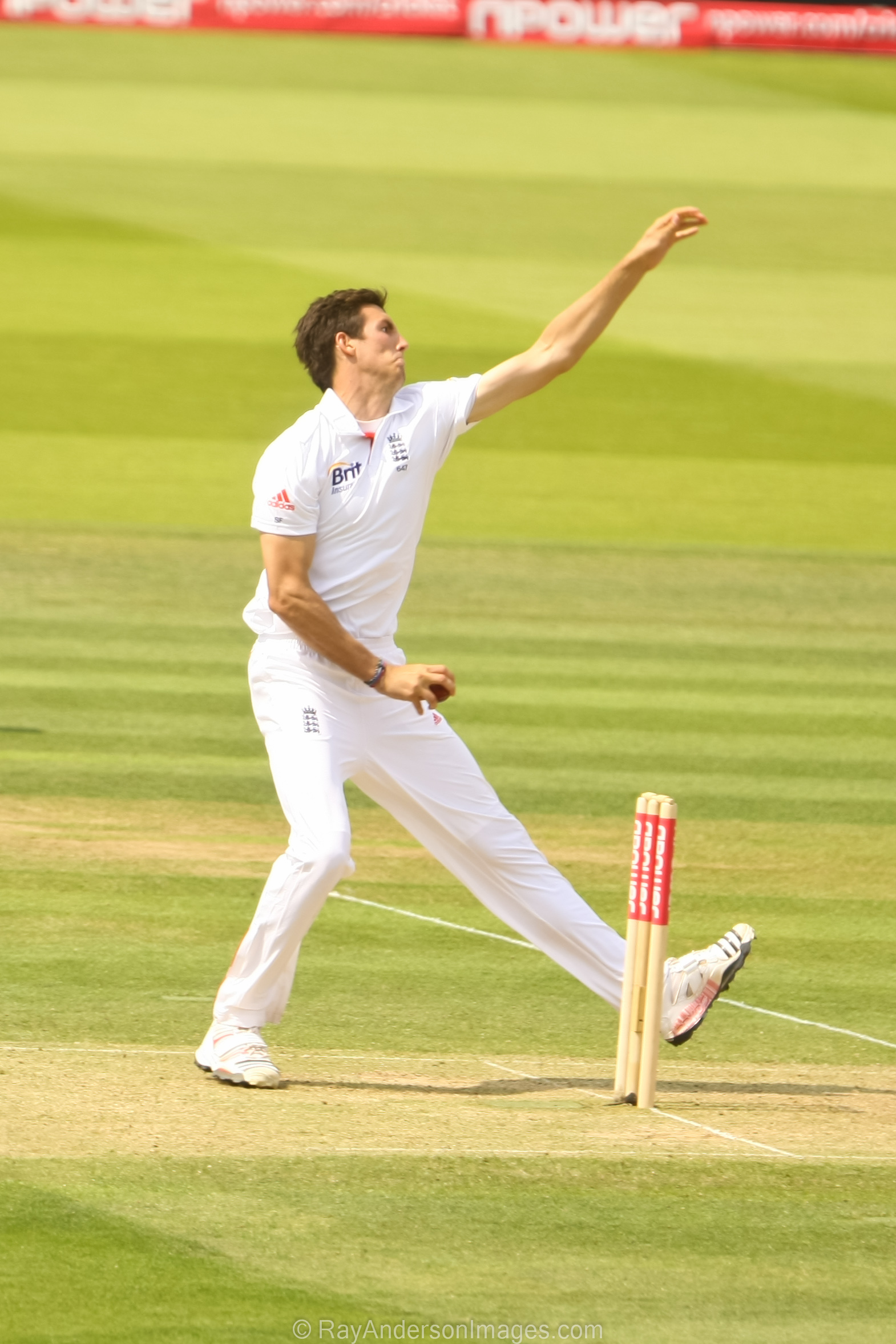 Steven Finn bowling at Lord's against Sri Lanka in the second Test. Scorecard.